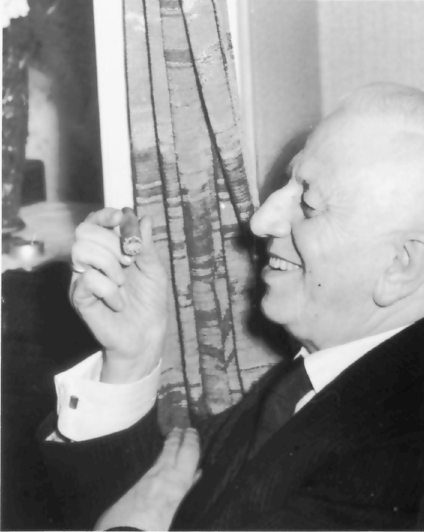 Wilhelm Sante